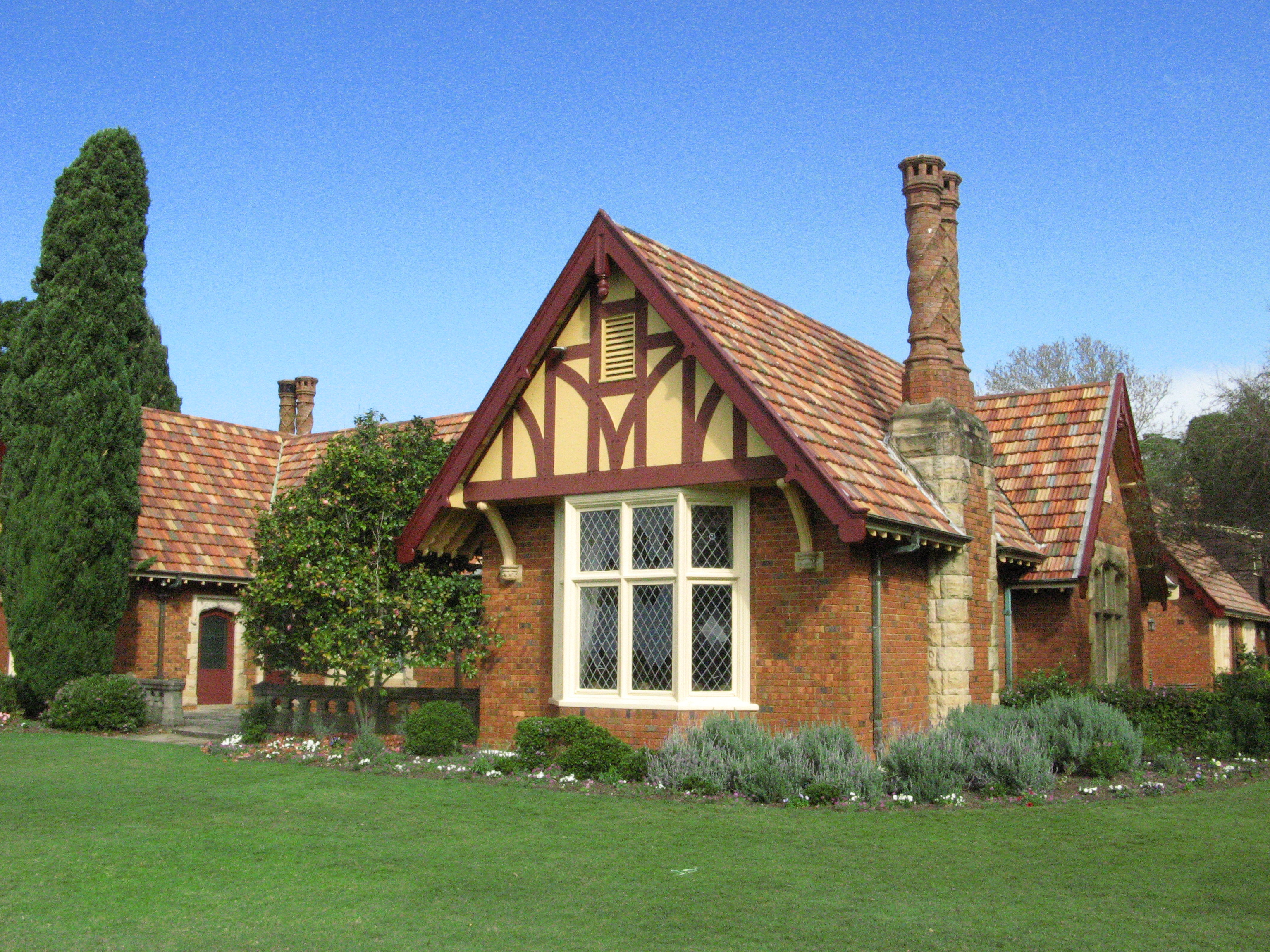 A view of the northwest corner of the Gleniffer Brae Manor House. Constructed in 1938-39 in the English Tudor style, the house is located in the suburb of Keiraville, New South Wales, Australia and is home to the Wollongong Conservatorium of Music.